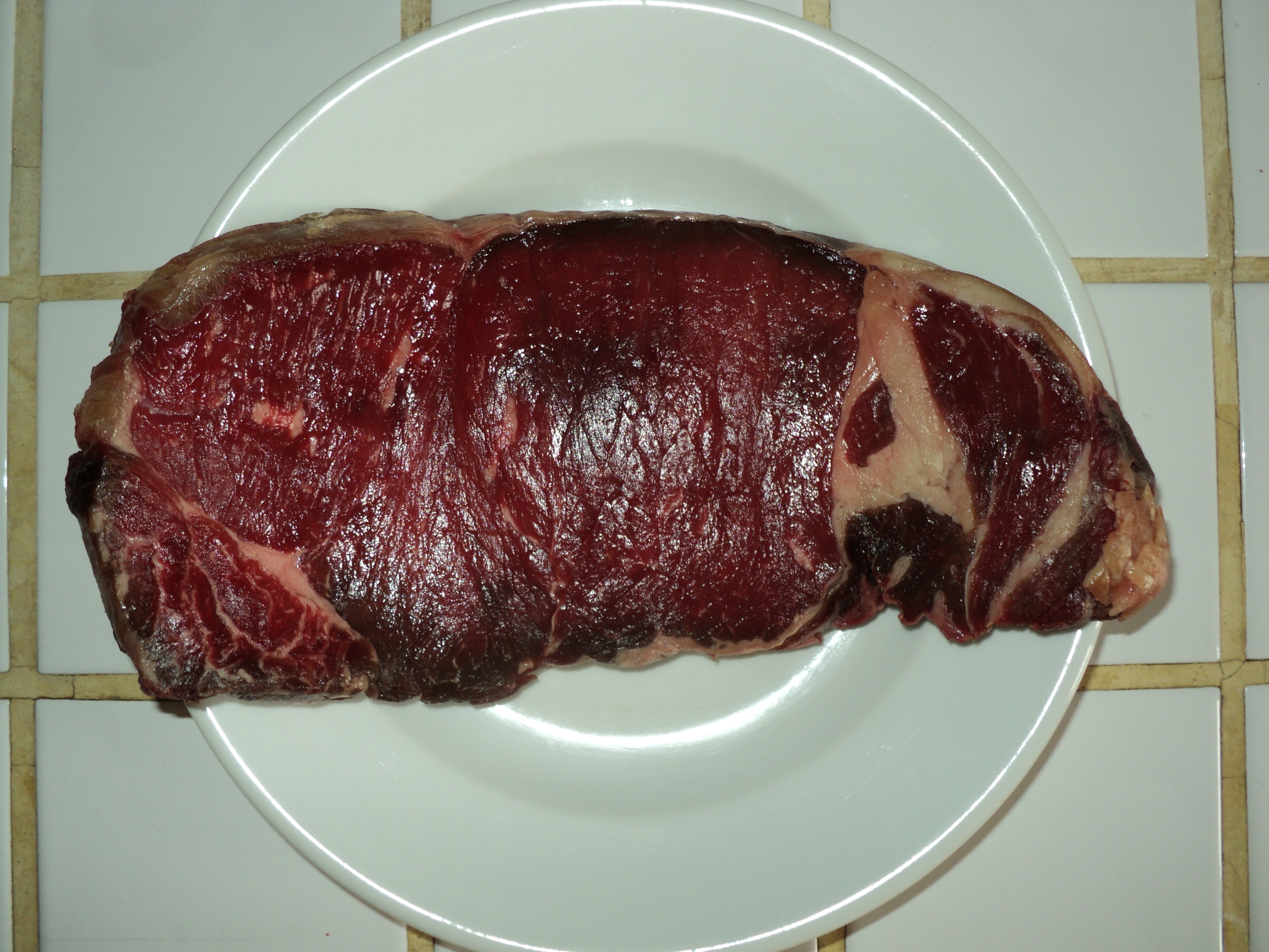 A Blonde d'Aquitaine cattle breed faux-filet (sirloin steak, here about 2 cm thick).